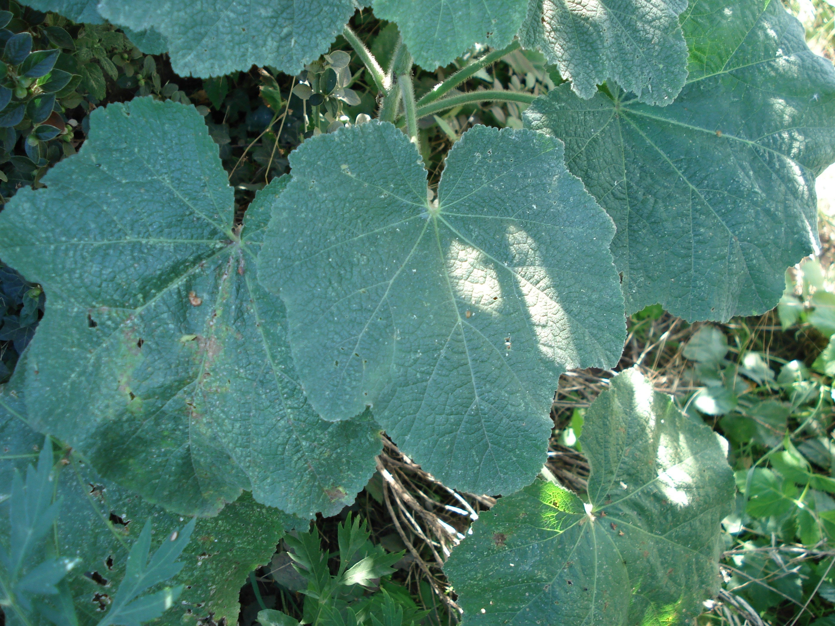 hollyhock. Leaf.